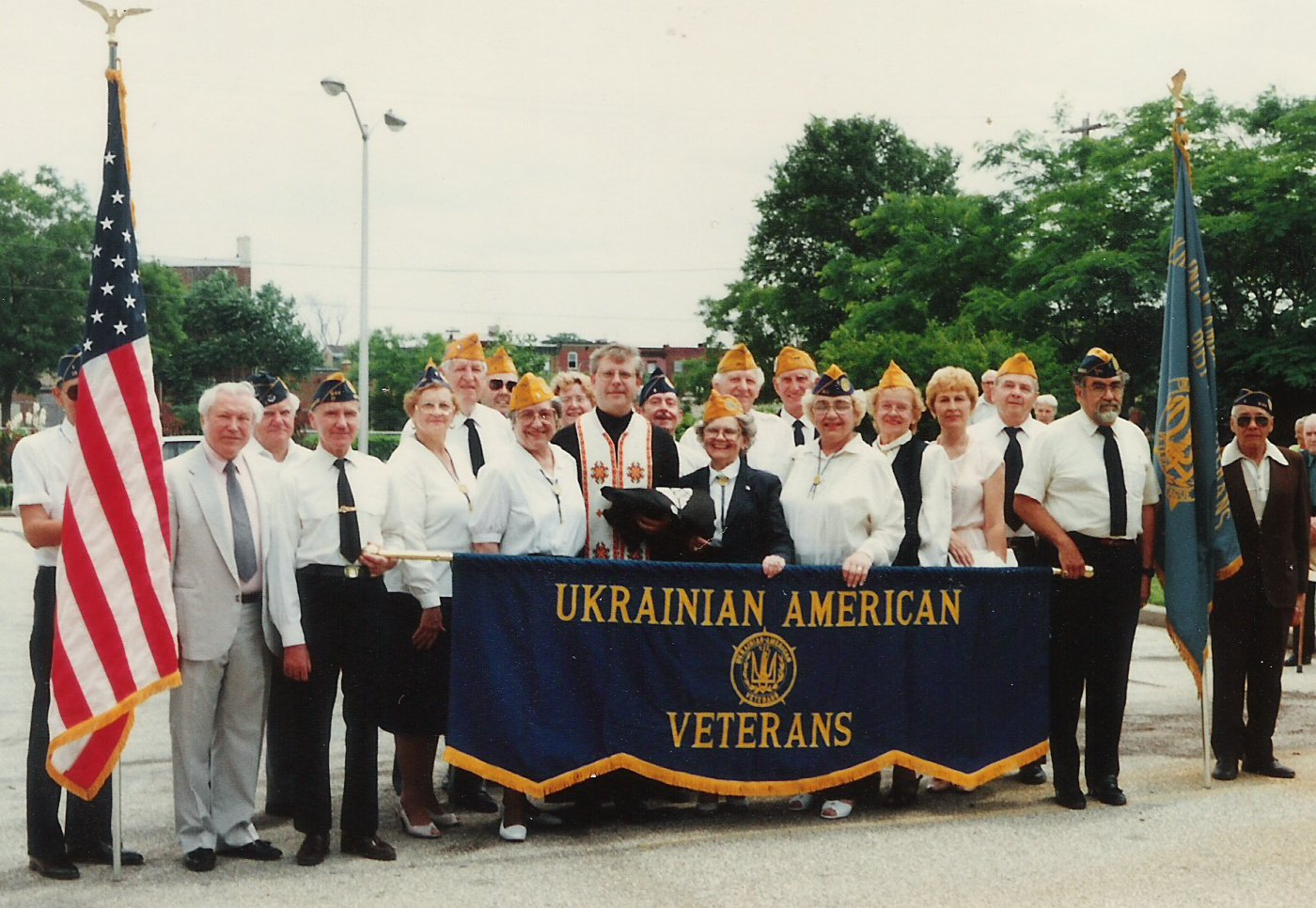 Ukrainian American Veterans gather after raising a POW-MIA Flag at the Providence Association of Ukrainian Catholics in Philadelphia, Pa. Photo credit: George A. Miziuk